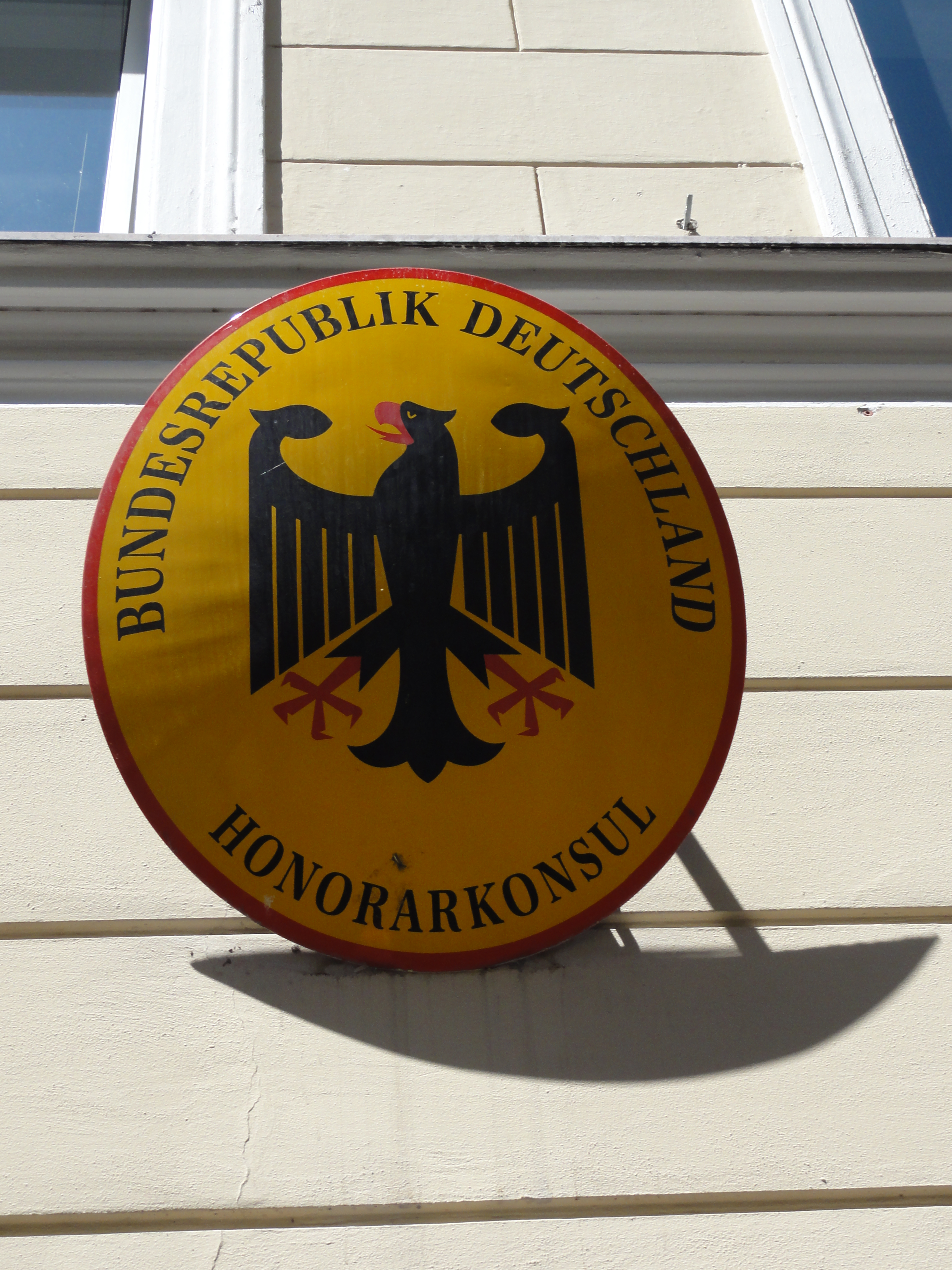 South Tyrol